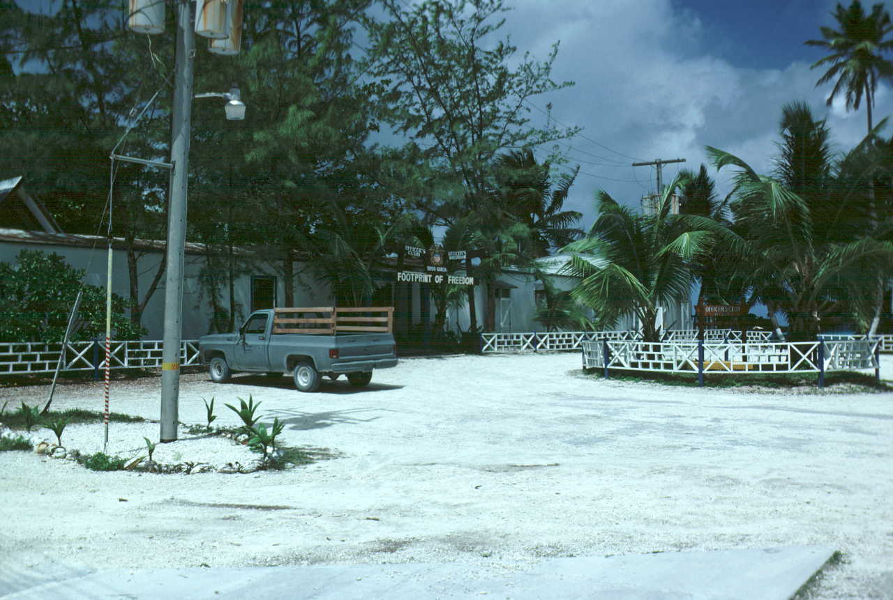 The dining spot for officers in the Diego Garcia Naval Support Facility. All unpaved roads were white crushed coral.